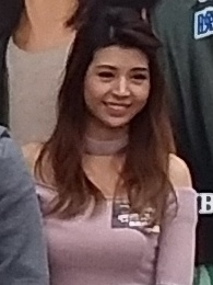 Sammi Cheung